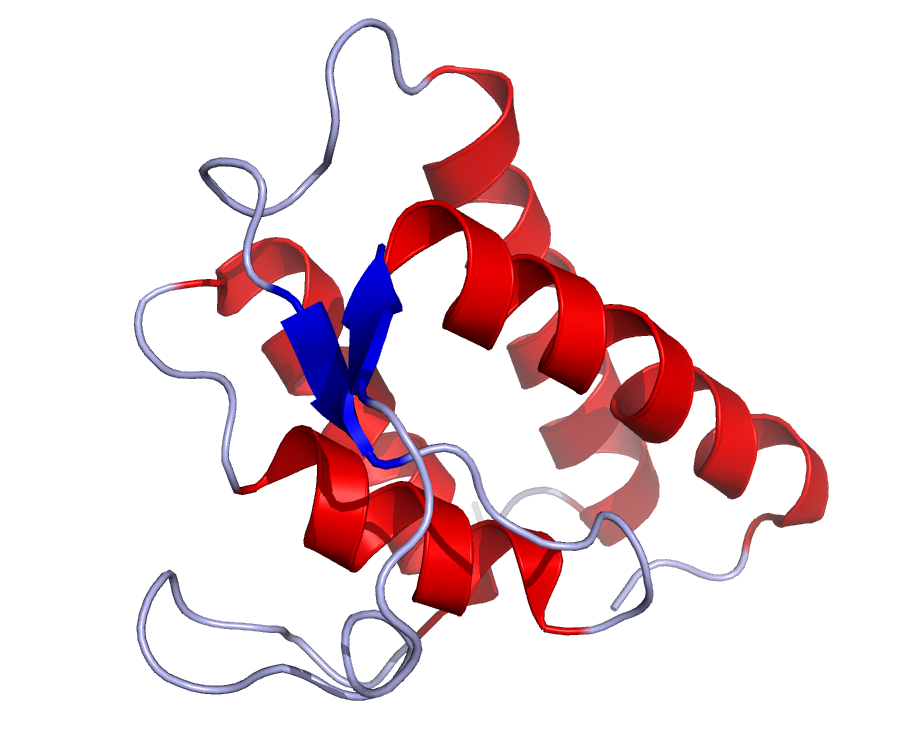 Solution structure of IL-13 as published in the Protein Data Bank (PDB: 1IJZ)